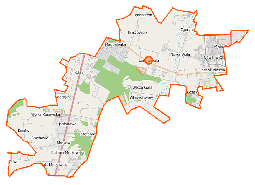 Map of Gmina Lesznowola, Poland This map of Lesznowola (gmina) was created from OpenStreetMap project data, collected by the community. This map may be incomplete, and may contain errors. Don't rely solely on it for navigation. Border coordinates52.123820.8033←↕→21.041252.0172